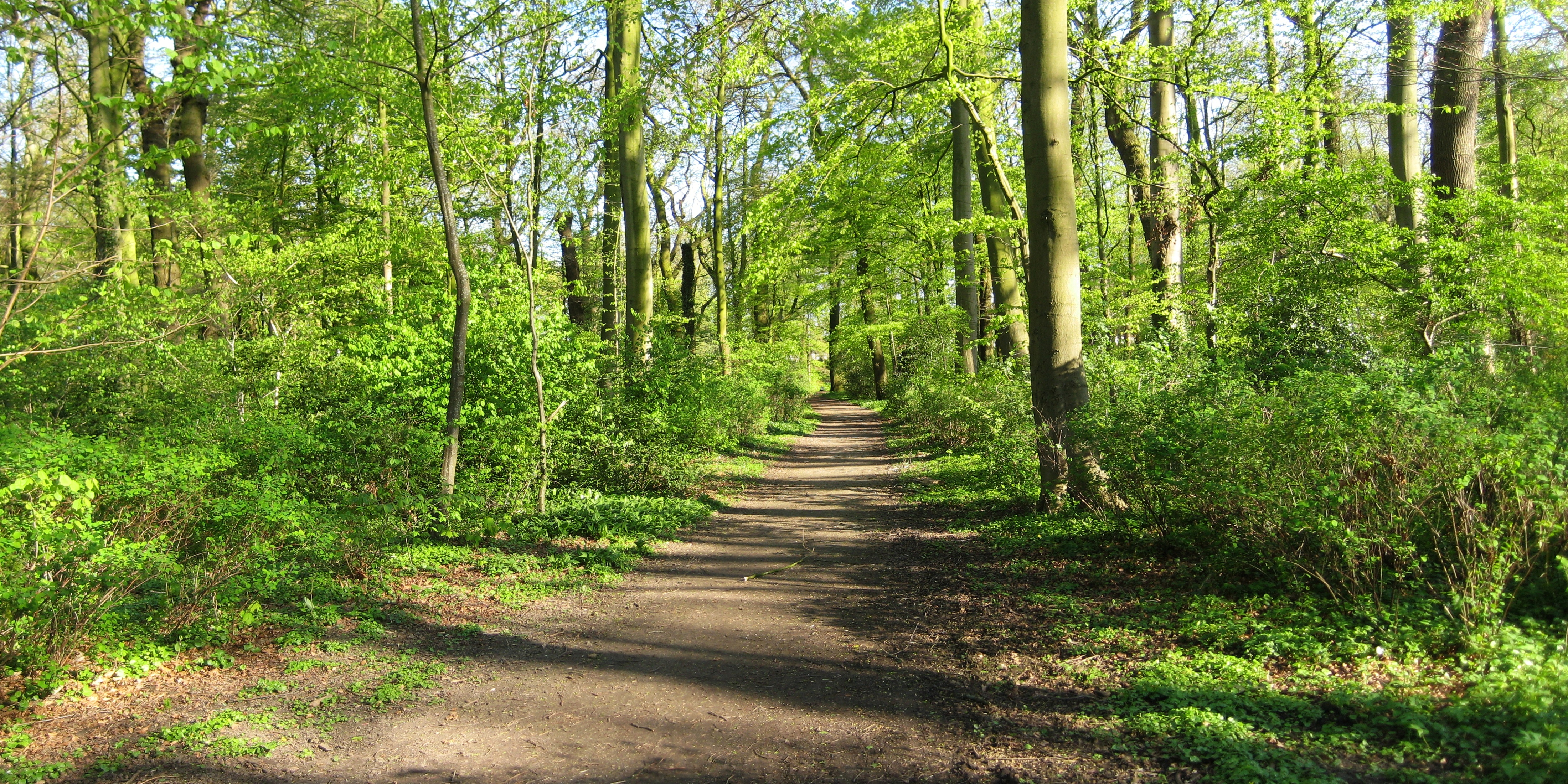 The Sterrebos, a park in the Dutch city of Groningen.